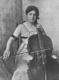 May Mukle, from a 1920 publication.